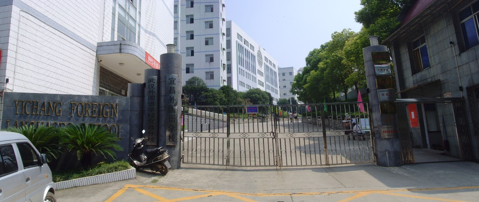 the gate of the school